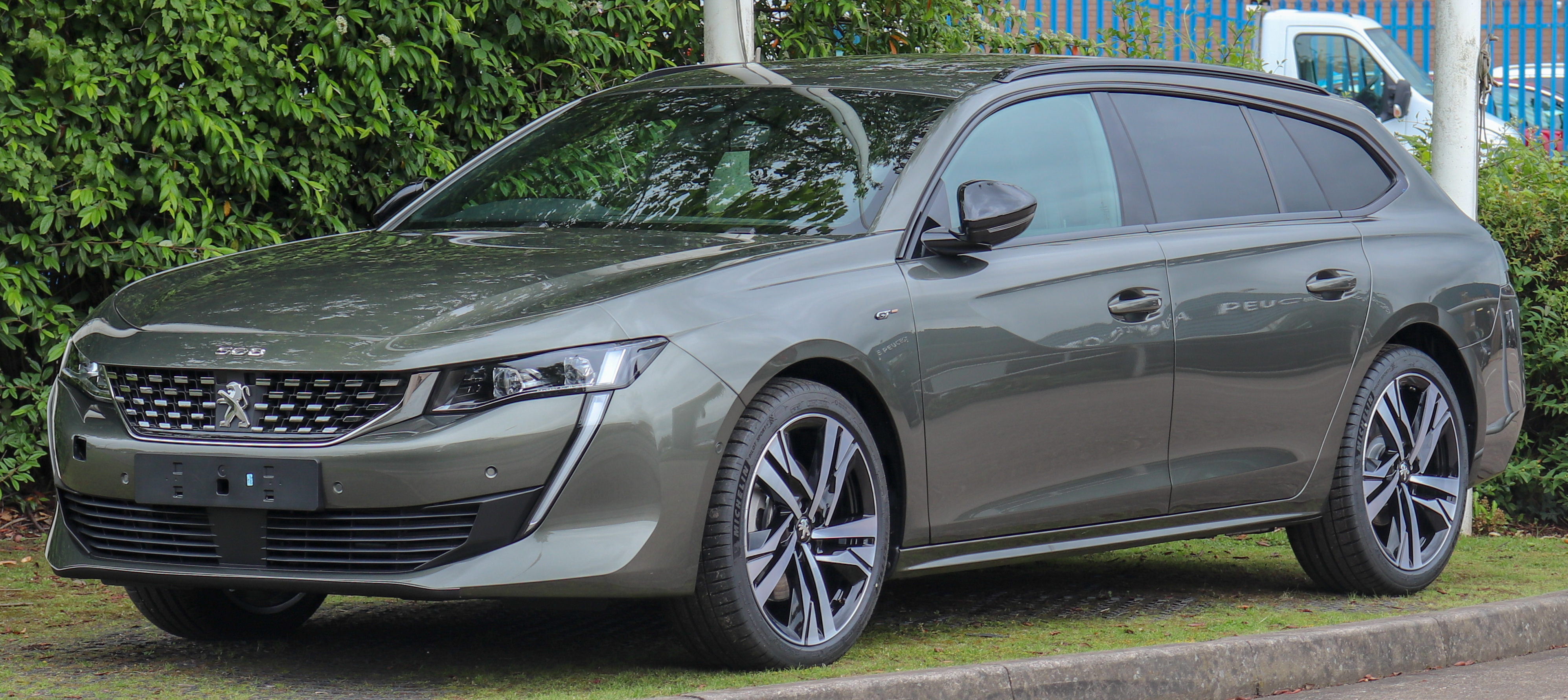 2019 Peugeot 508 SW GT Line Taken in Leamington Spa